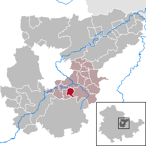 Mechelroda in Thuringia - District Weimarer Land